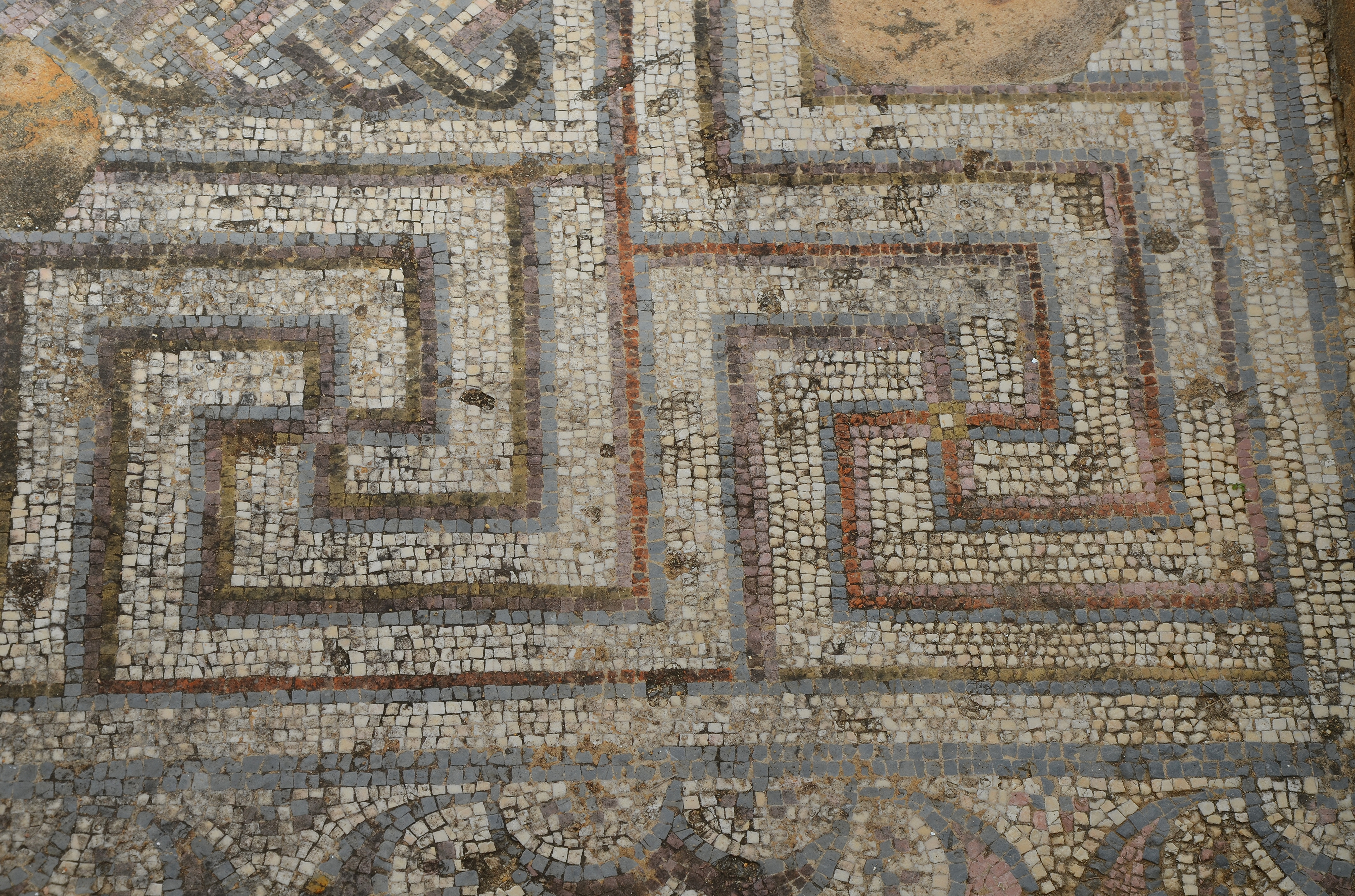 The Roman Ruins of Milreu, a of a luxurious rural villa, transformed into a prosperous farm in the 3rd century, Portugal